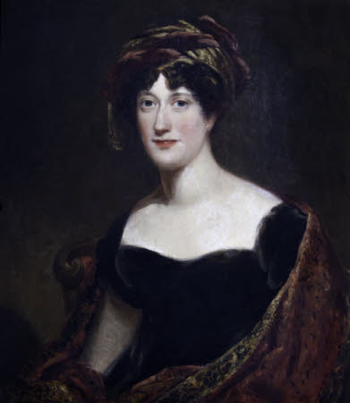 Thomas Barber (1771-1843), Lady Anne Margaret Coke, Viscountess Anson, circa 1815, Shugborough Estate, National Trust